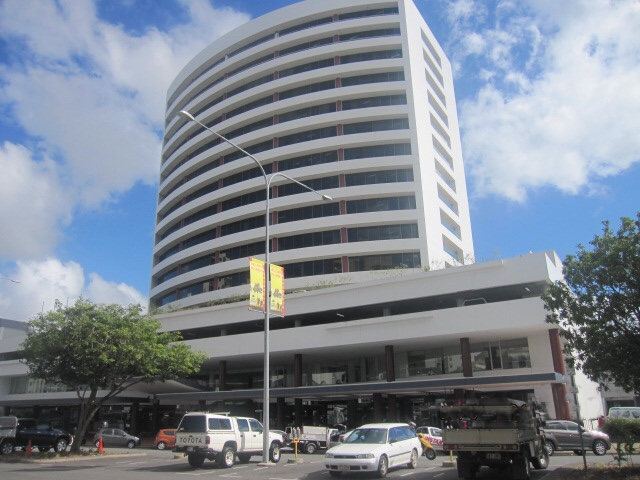 Cairns tallest building the 56m Cairns Corporate tower